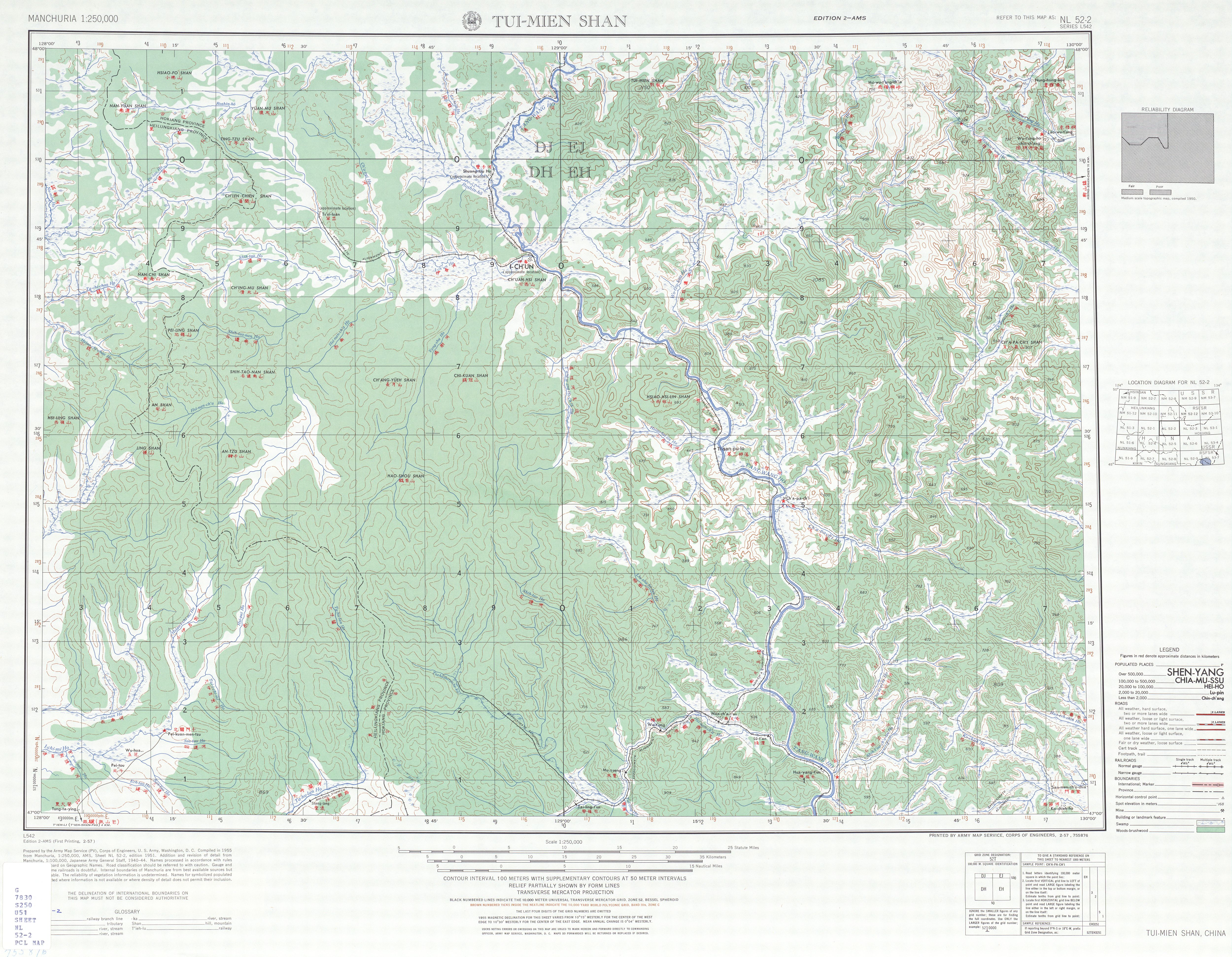 Manchuria AMS Topographic Maps